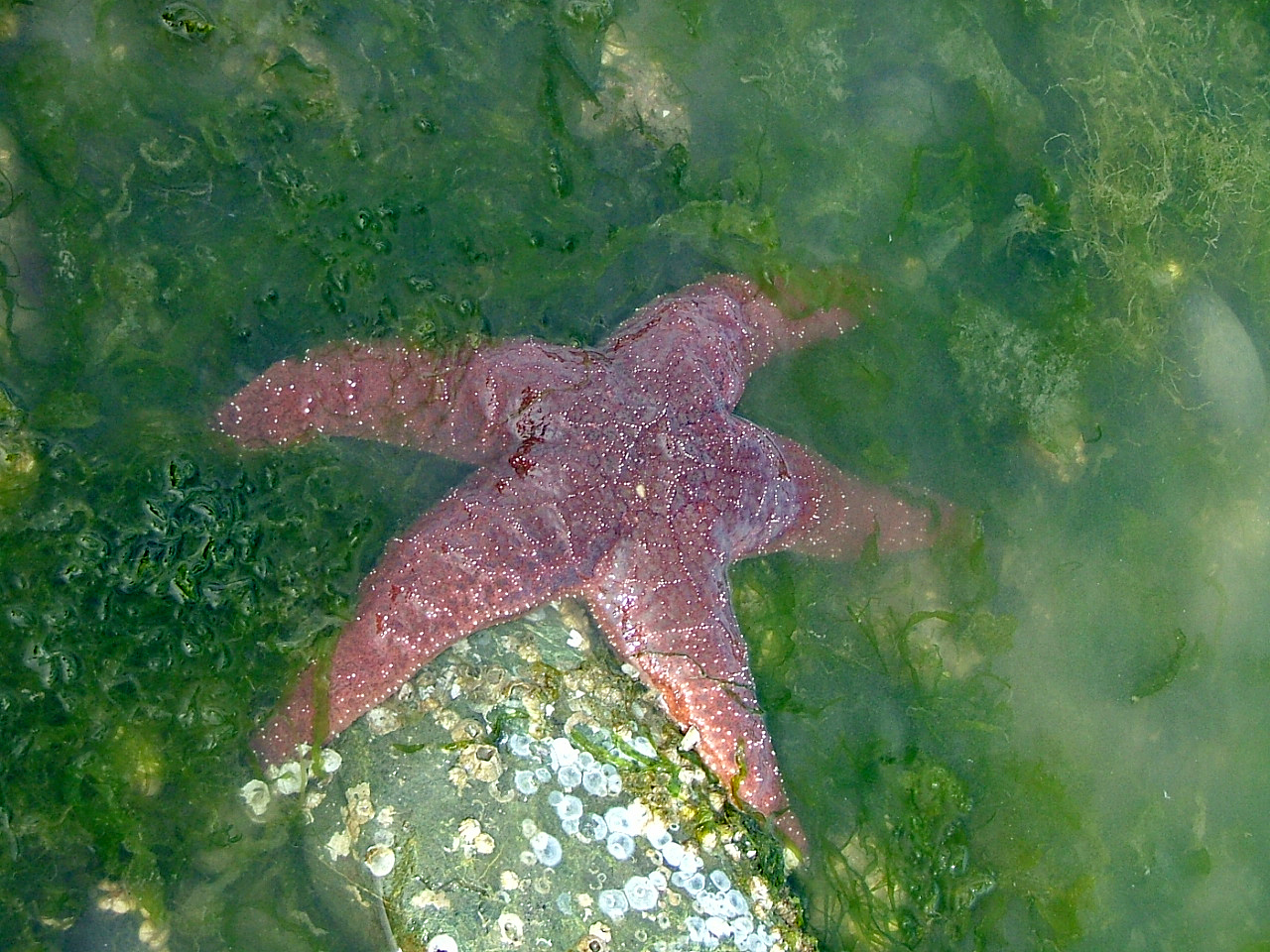 Picture of an unidentified red Starfish (Asteroidea en ) in Puget Sound, Washington near Penrose Point. It is possibly an Ochre Sea Star. (See this image)